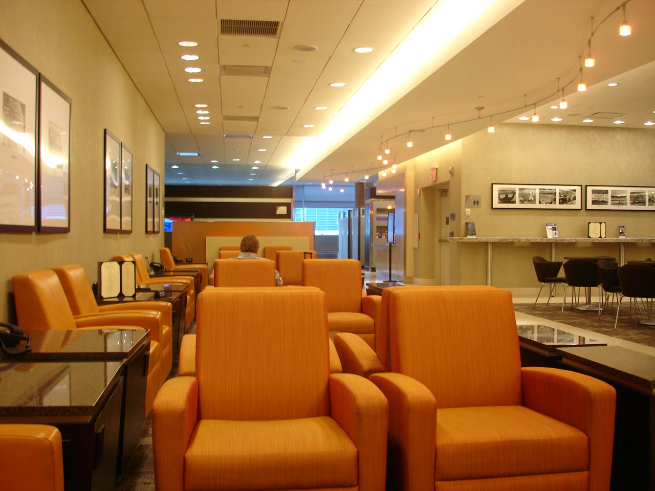 Inside an American Airlines Admirals Club